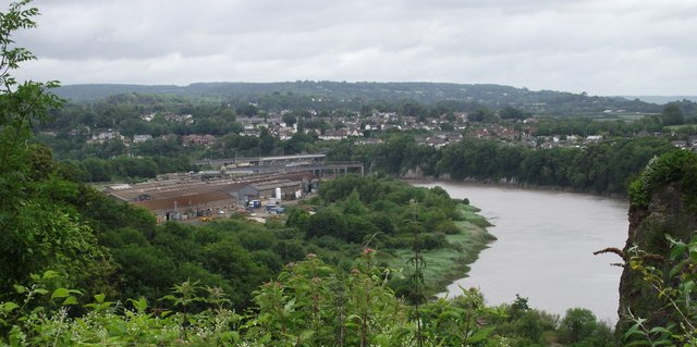 View over shipyard site, Chepstow (cropped)